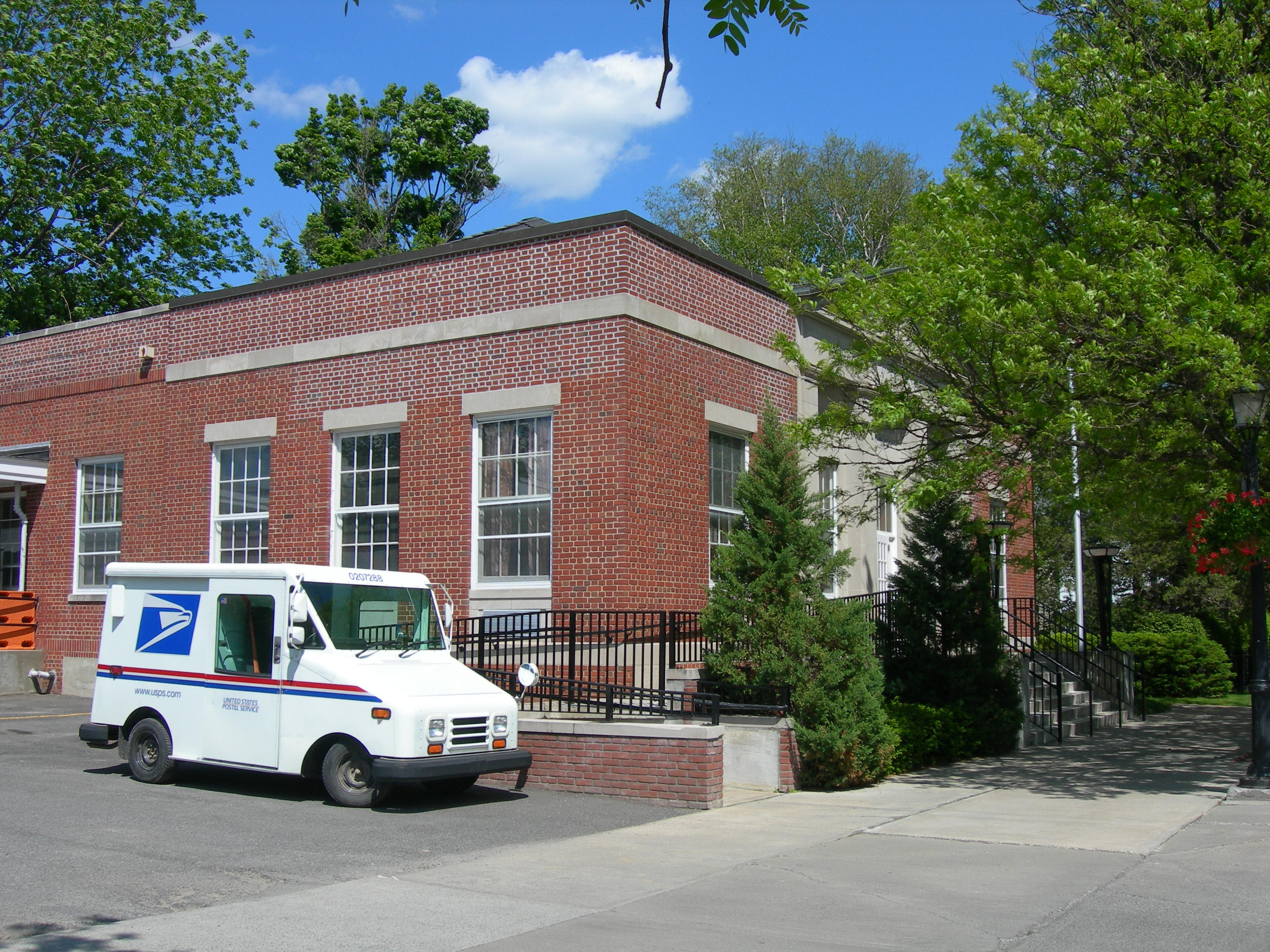 Front and western side of the U.S. Post Office in Cooperstown, New York, United States. Built at 28-40 Main Street in 1935, it is listed on the National Register of Historic Places, and it is part of a Register-listed historic district, the Cooperstown Historic District.